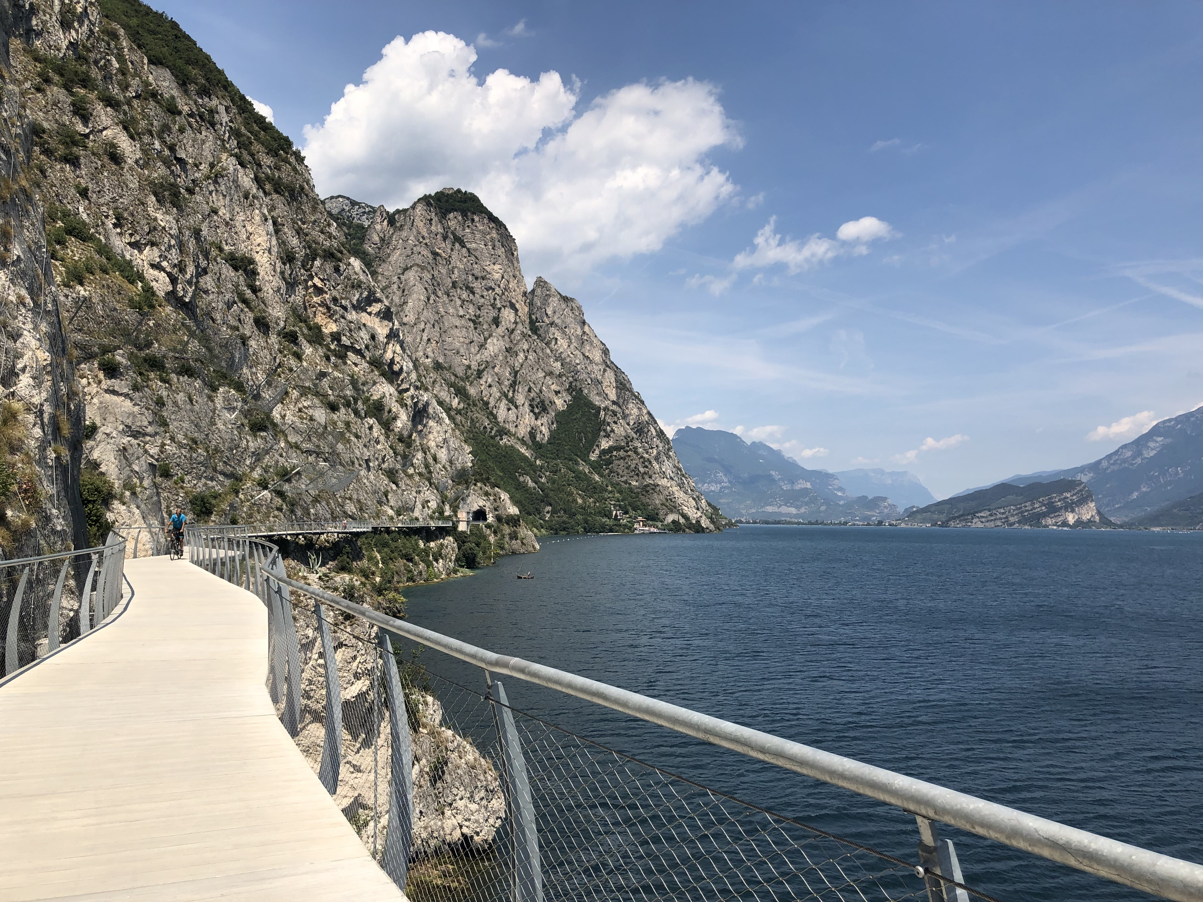 Ciclopista along Lake Garda from Limone sul Garda with a view to Riva del Garda and to mountain Monte Brione in background, August 2019.